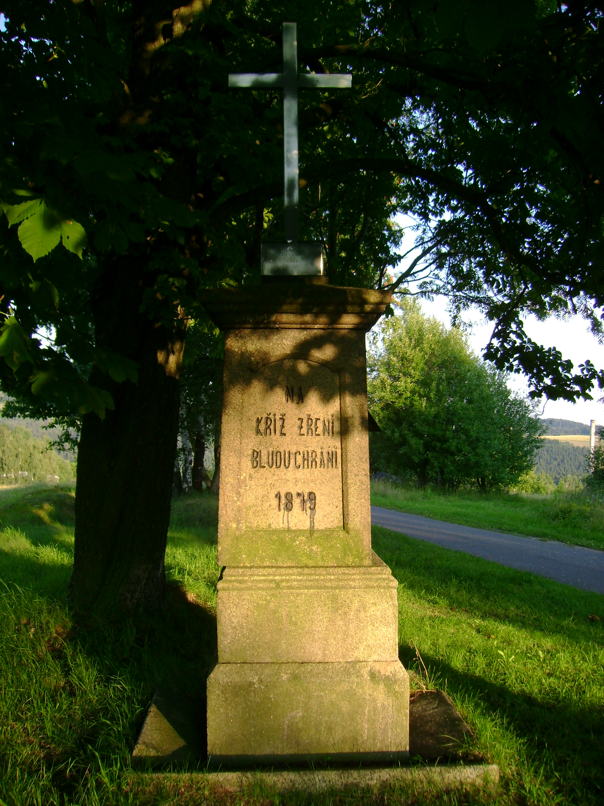 Wayside cross. Jára Cimrman's Bikeway. – Zlatá Olešnice in Jablonec nad Nisou District in the Liberec Region of the Czech Republic.